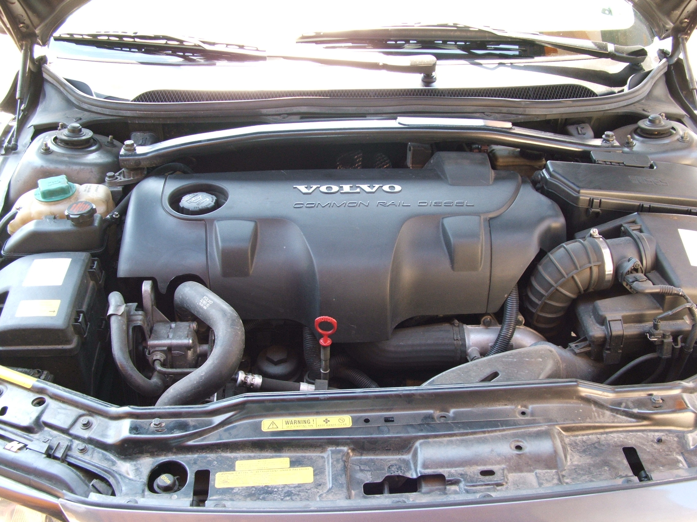 Volvo D5 Engine 1° Generation